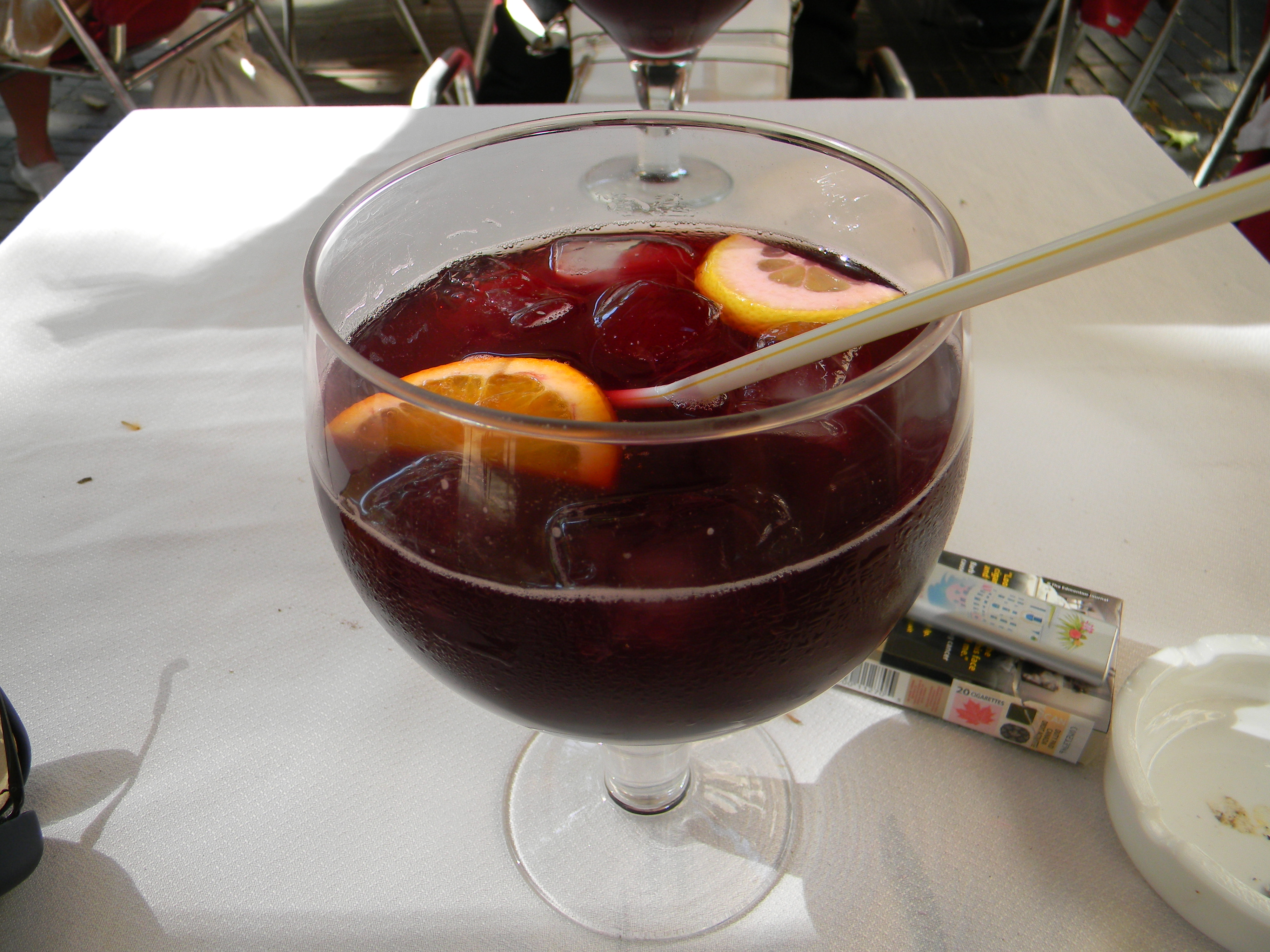 Restaurants in Barcelona, Sangria